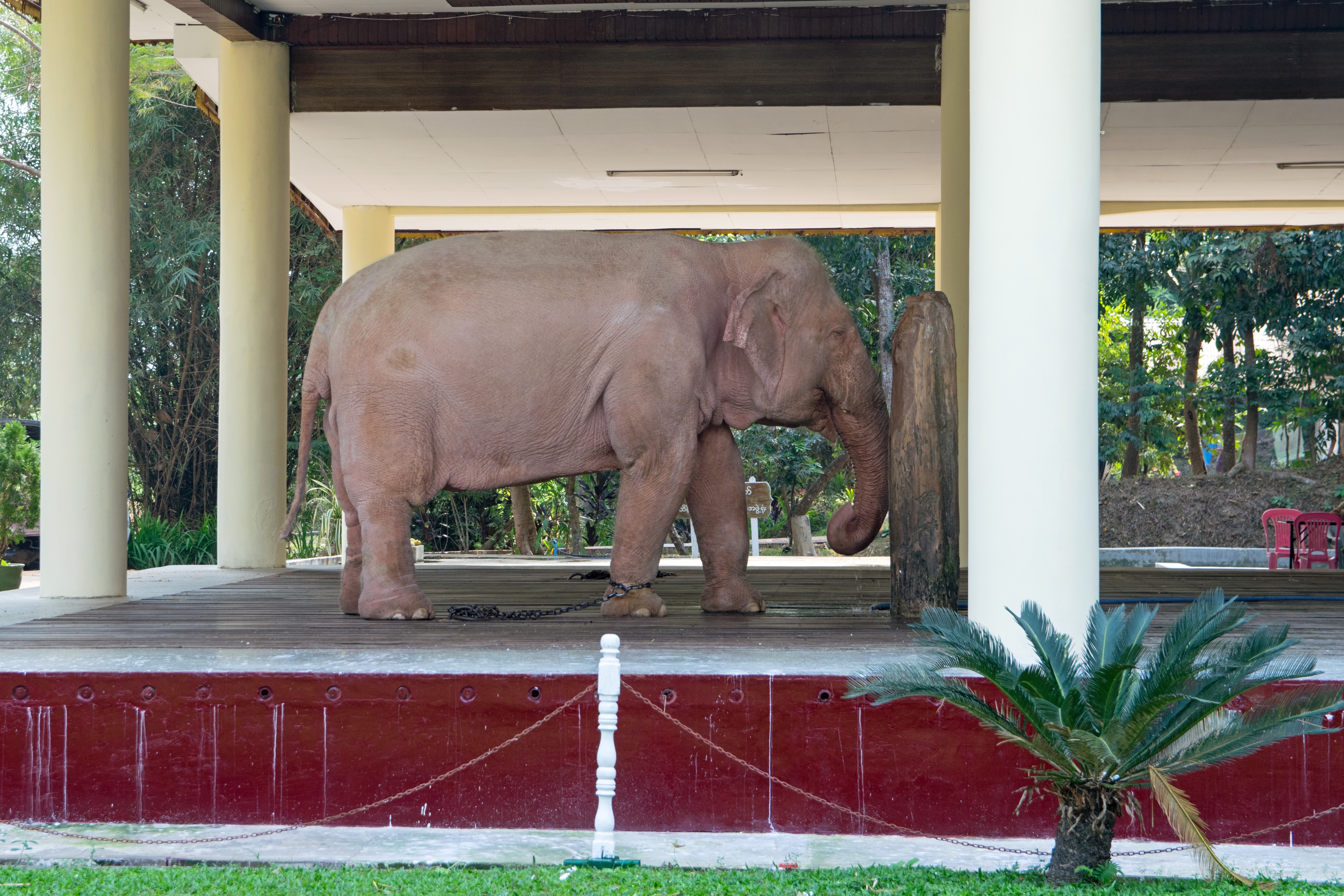 White elephant in Yadana White Elephant Park, Insein, Yangon